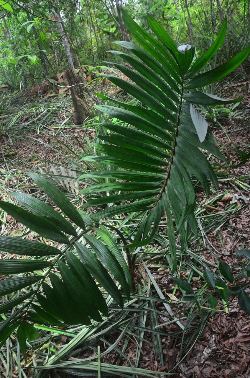 Oenocarpus mapora (family: Arecaceae). Located in the Amazon jungle of Loreto Region, Perú, 60km south of Iquitos